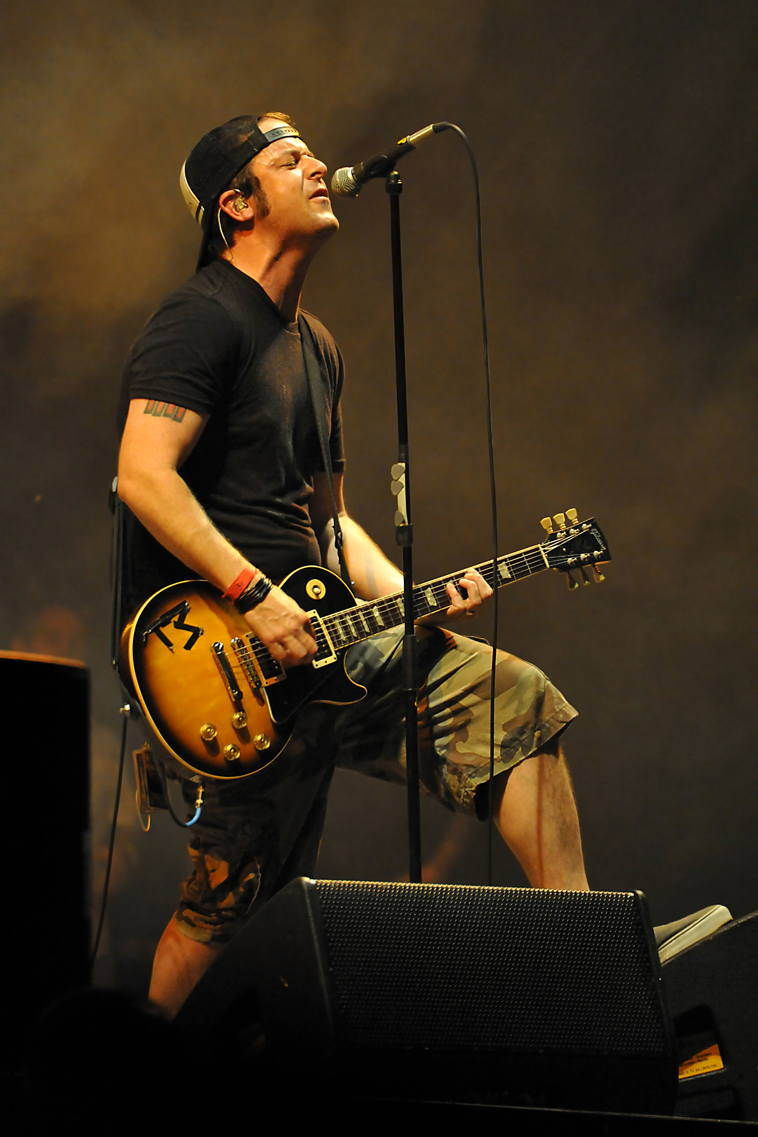 The rhytm-guitarist and vocalist Tony Sly from No Use For A Name performing at the Rheinkultur festival at Bonn, Germany.